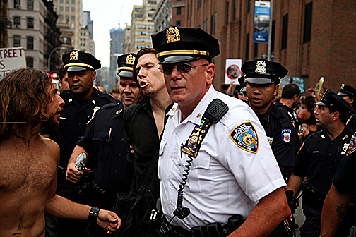 Deputy Inspector Anthony Bologna of the NYPD during the Saturday, September 24th "Occupy Wall Street" arrests.